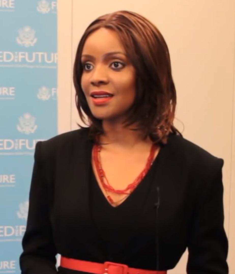 Mpule Kwelagobe, founder and CEO of MPULE Institute for Endogenous Development, and Miss Universe 1999. Kwelagobe has spent the last 15 years addressing HIV/AIDS, food security and the feminization of poverty in Africa.